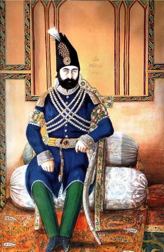 Mohamad Shah Qajar at 39 age-1844